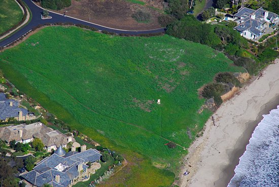 The Shalawa Meadow archaeological site — aerial view. The seaside meadow was used in ancient times as a burial site by the Chumash people. Located near the Coast Village district of Montecito, south of and near Santa Barbara, California.